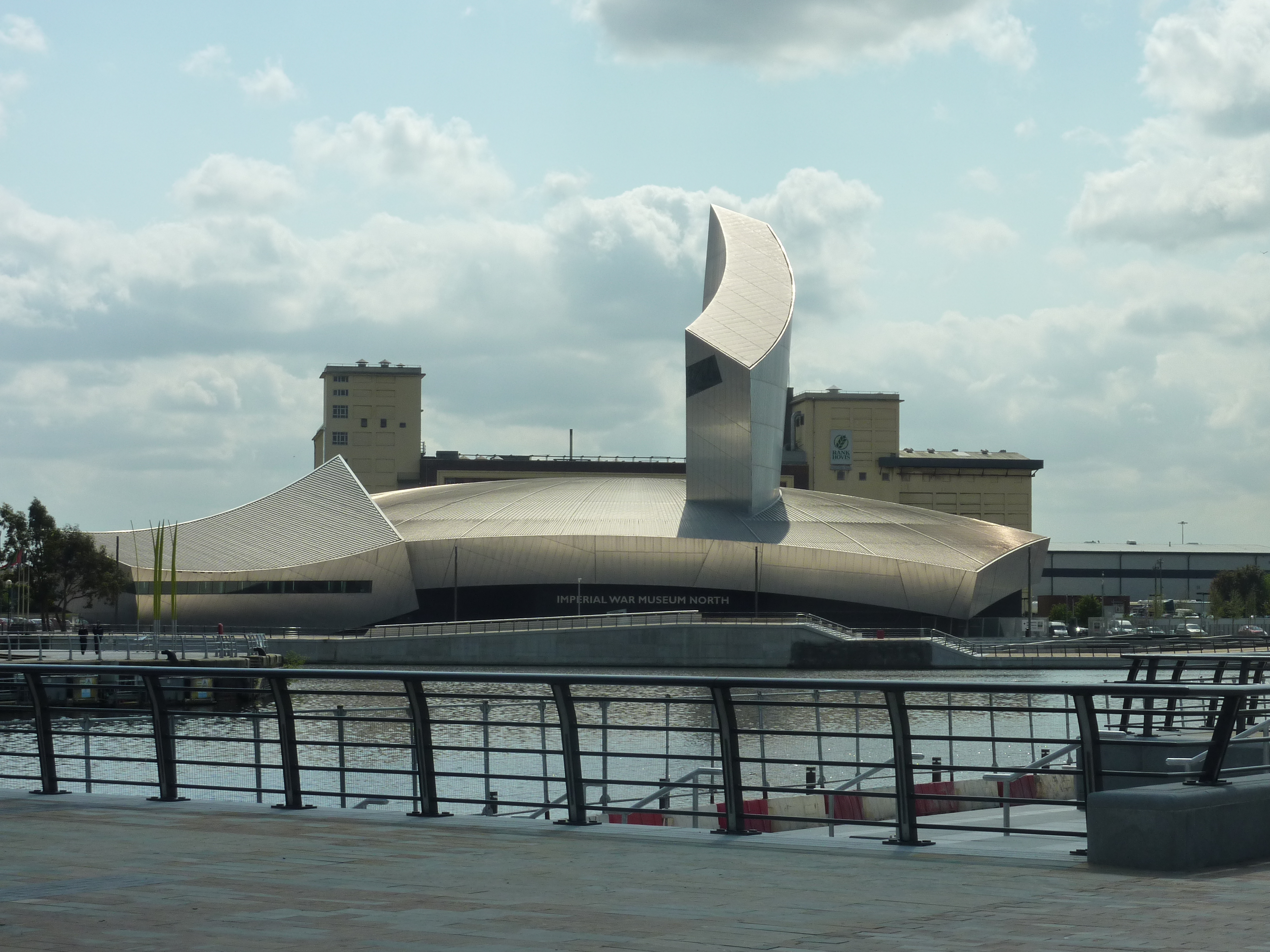 These pictures of the inside of our MediaCityUK building were taken by lecturer Helen Keegan on 7th September. You can find more images and keep up with all the latest on We're also on and at